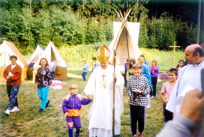 Catholic Esperanto Camp, Sebranice, district Svitavy, Czechia.